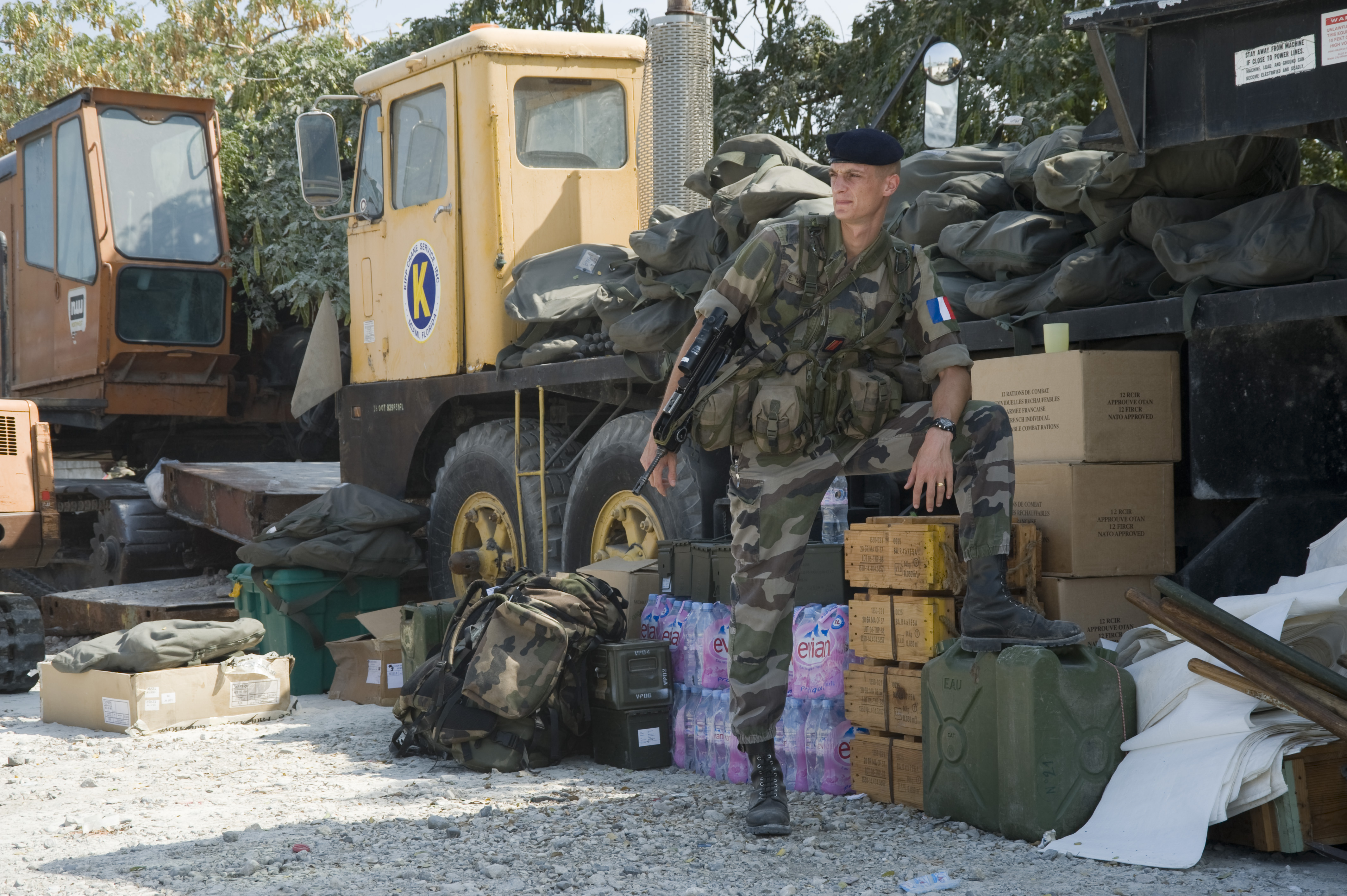 A French soldier guards supplies in Port-au-Prince, Haiti, Jan. 20, 2010. Multi-national forces are rendering aid to the Haitian people following the 7.0 magnitude earthquake that struck the country Jan. 12, 2010.